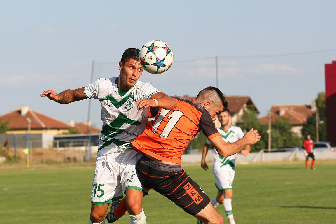 Slivnishki geroi vs Pirin Gotse Delchev